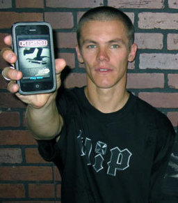 Professional skateboarders Geoff Rowley and Erik Ellington hold out their smartphones.